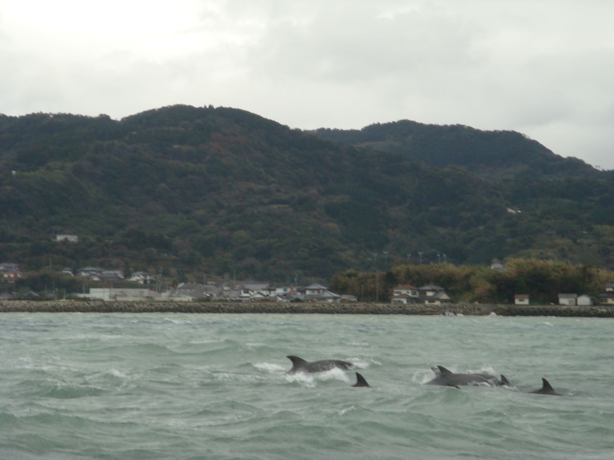 Dolphin Watching. Dolphin Watching from Kazusa